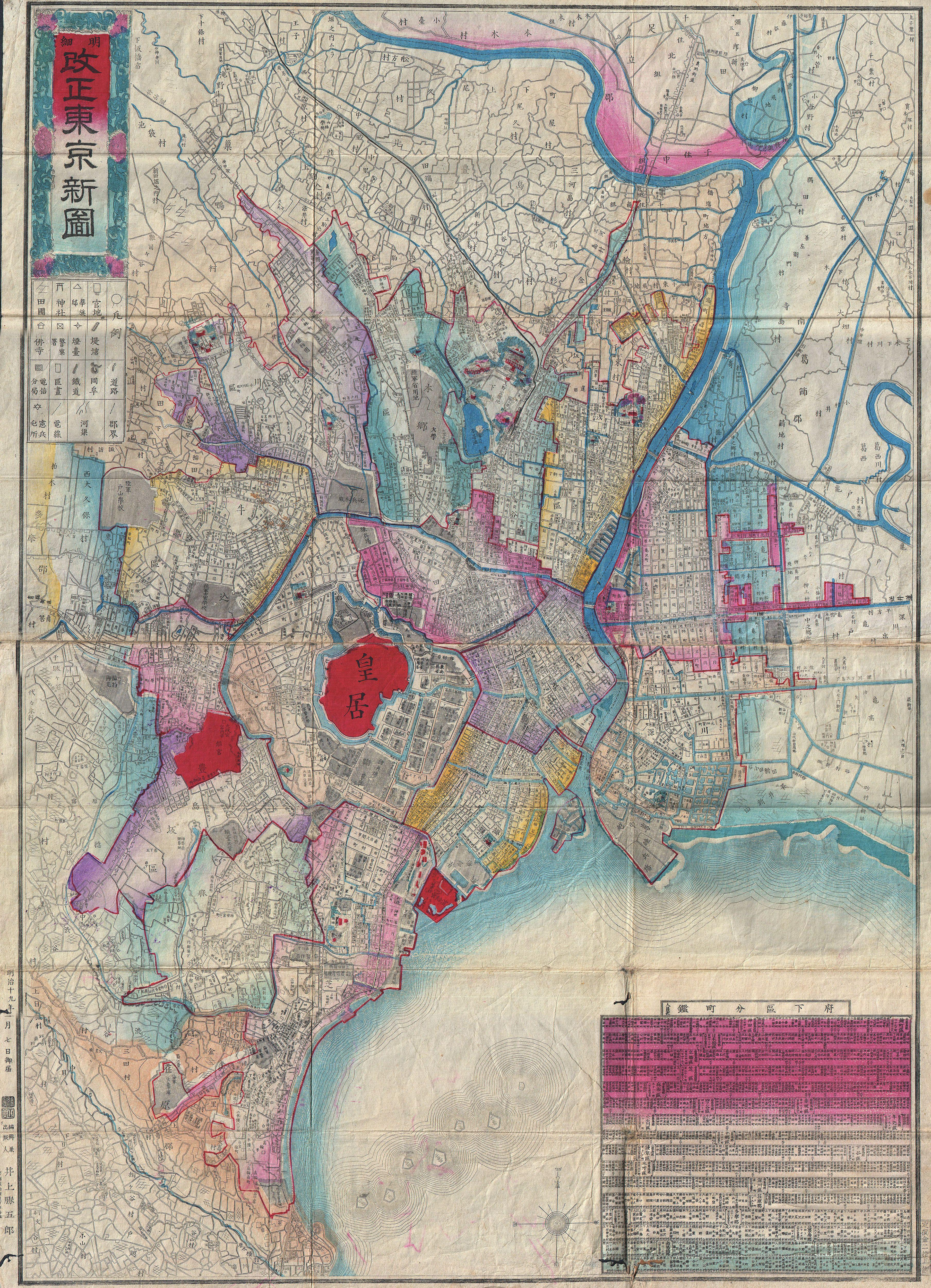 A rare and unusual Japanese map of Tokyo made in the 19th year of the Emperor Meiji’s reign or 1886. Depicts the imperial city in considerable detail with streets, blocks, waterways, and important buildings noted. Color coded according to district. Statistical table in the lower right quadrant. This curious map is a stylistic departure from the traditional Japanese maps of Tokyo which tended toward a horizontal rather than vertical layout. All text in Japanese. Folds into its original boards.